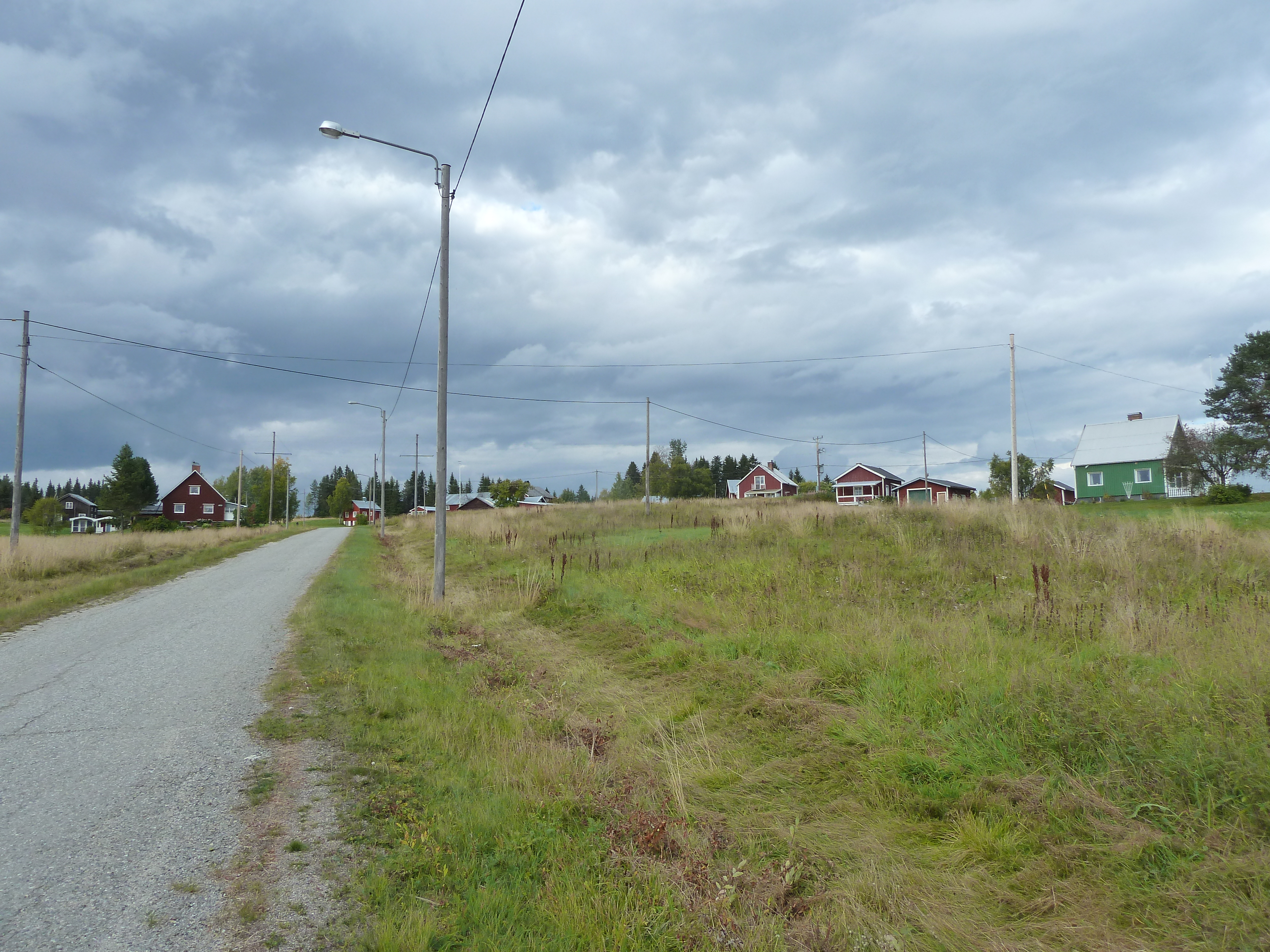 The village Tjärn in Örnsköldsvik municipality, Västernorrlands län, Sweden.